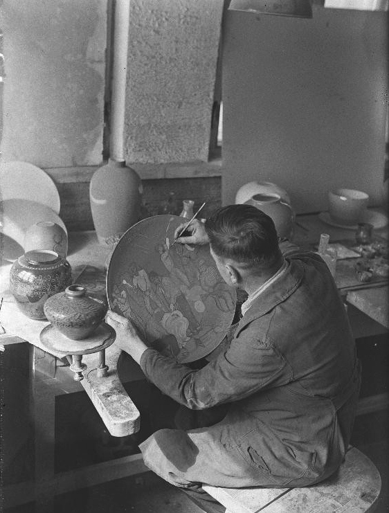 Photograph of the Finnish painter Aarne Aho (1904–1978) working at Kauklahden Lasitehdas, Espoo.